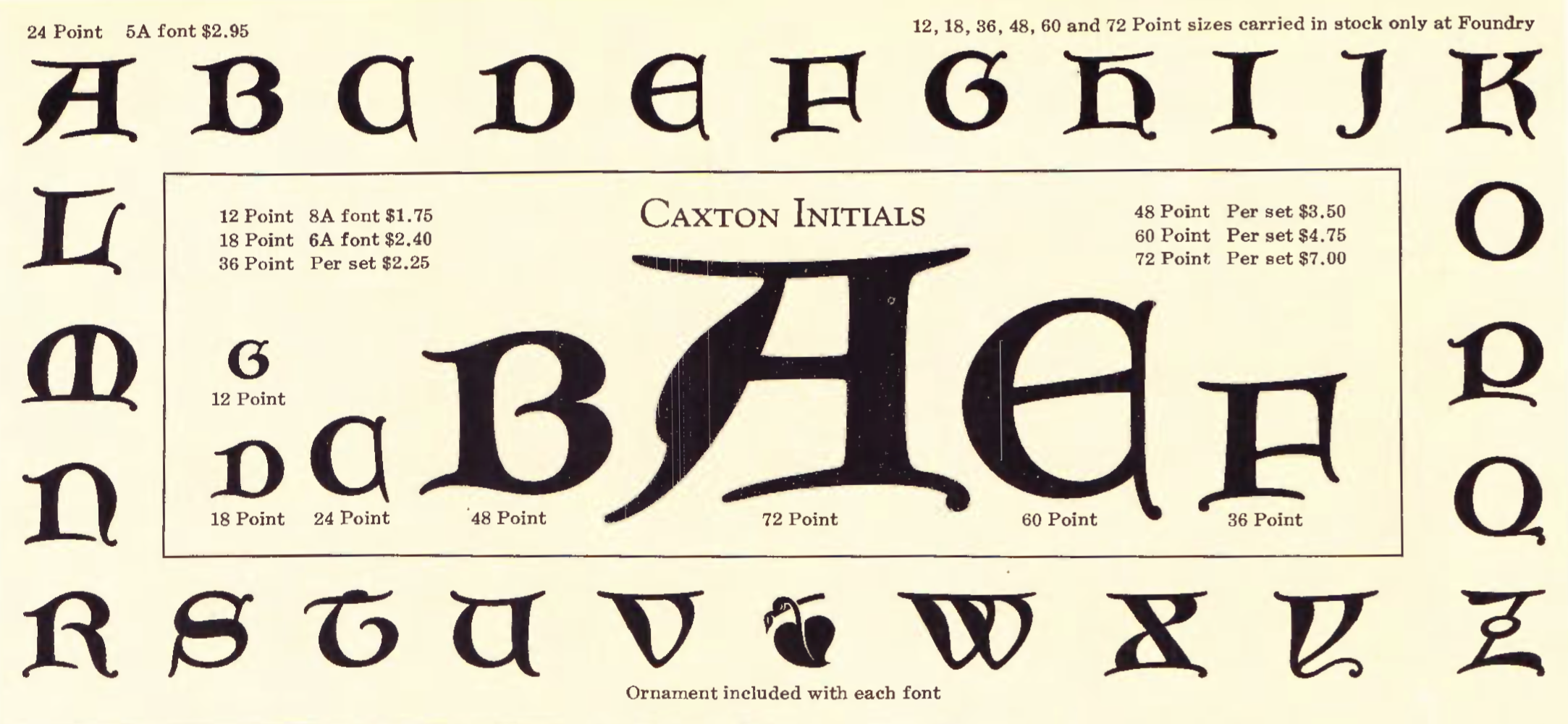 Caxton Initials, designed by Frederic Goudy